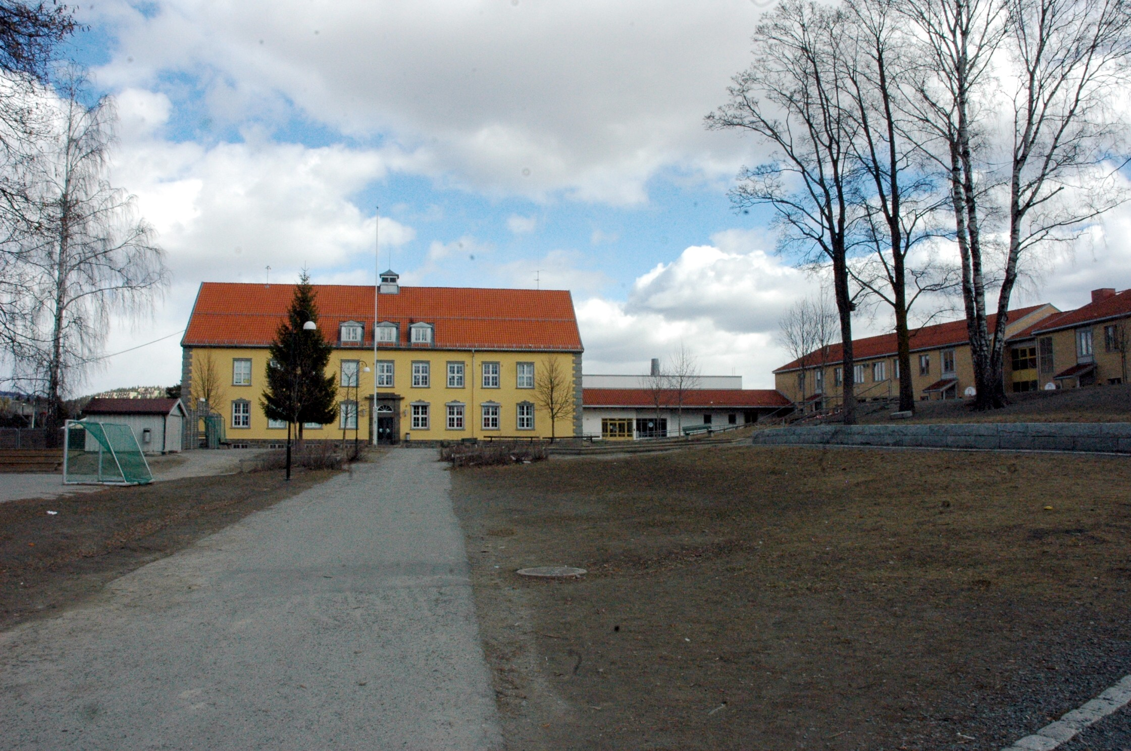 Jar School, Jar in Norway Jar Skole, Jar i Bærum